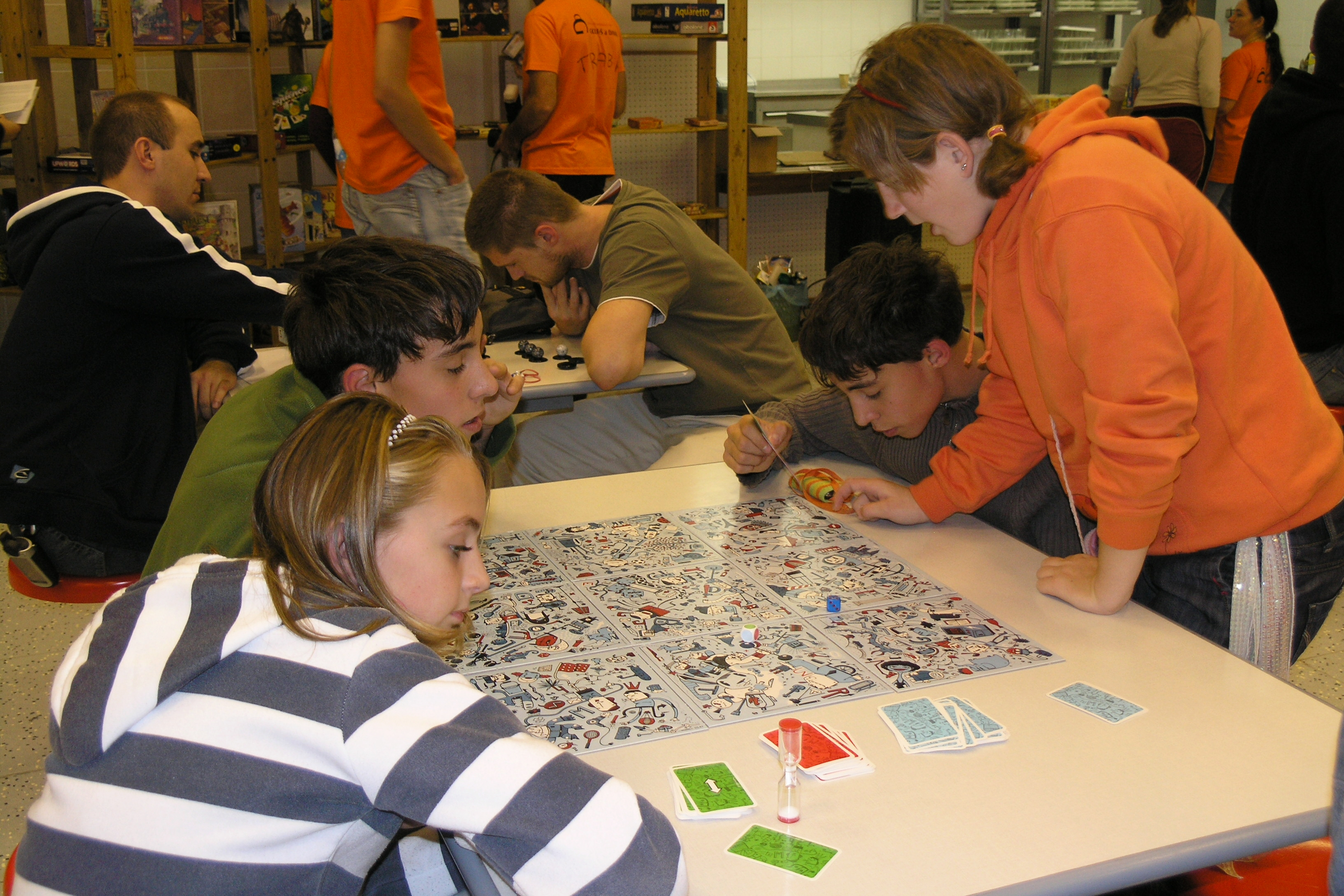 Personality rights warning Although this work is freely licensed or in the public domain, the person(s) shown may have rights that legally restrict certain re-uses unless those depicted consent to such uses. In these cases, a model release or other evidence of consent could protect you from infringement claims.